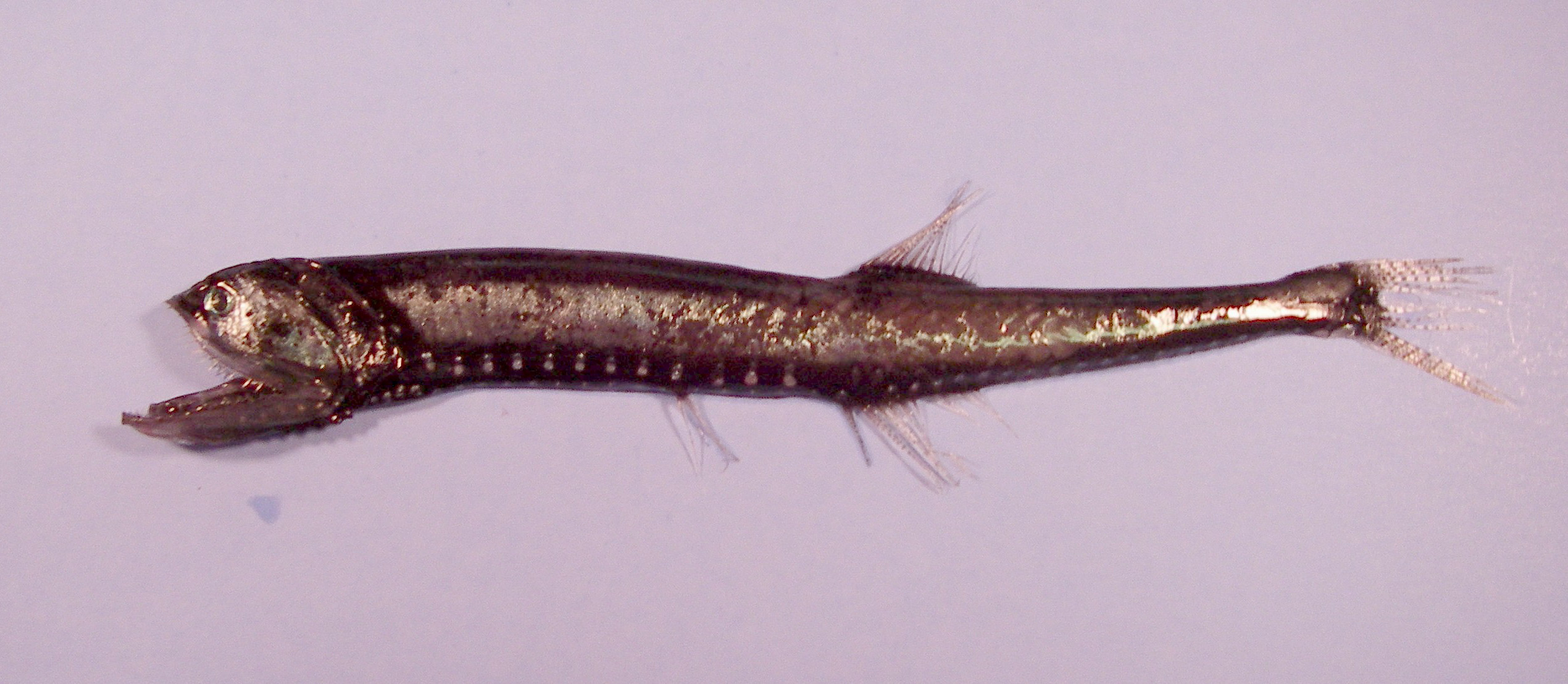 Longtooth anglemouth or elongated bristlemouth fish (Gonostoma elongatum ). Gulf of Mexico.